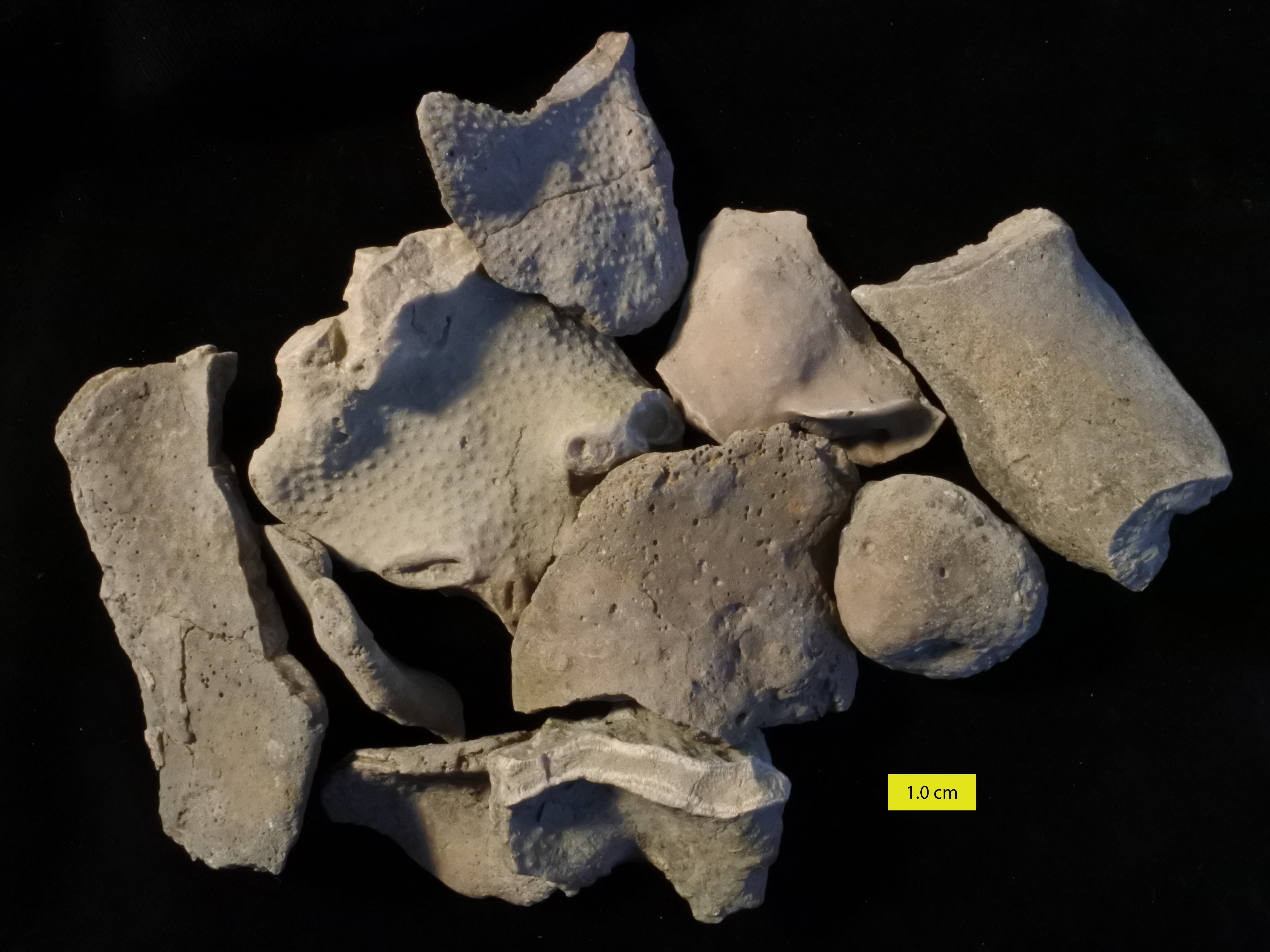 Trepostome bryozoans from the Bellevue Formation (Upper Ordovician, Katian) in northern Kentucky.